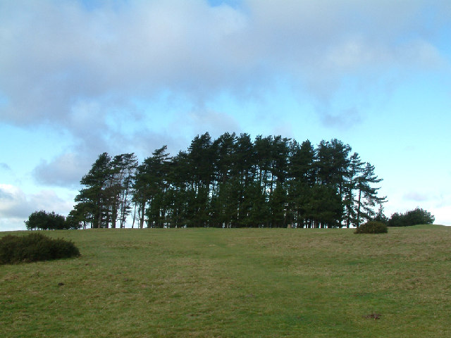 May Hill. Trees on the summit of May Hill. The summit is 296 metres (971 feet) above sea level, and located there among the trees are several benches from which allow study in comfort of the views, which are extensive in all directions. They include views to the Welsh borders and the lower reaches of the River Severn. Each May Day, morris dancers dance in the new dawn on the top of May Hill, a ceremony believed to have been carried out for several centuries.